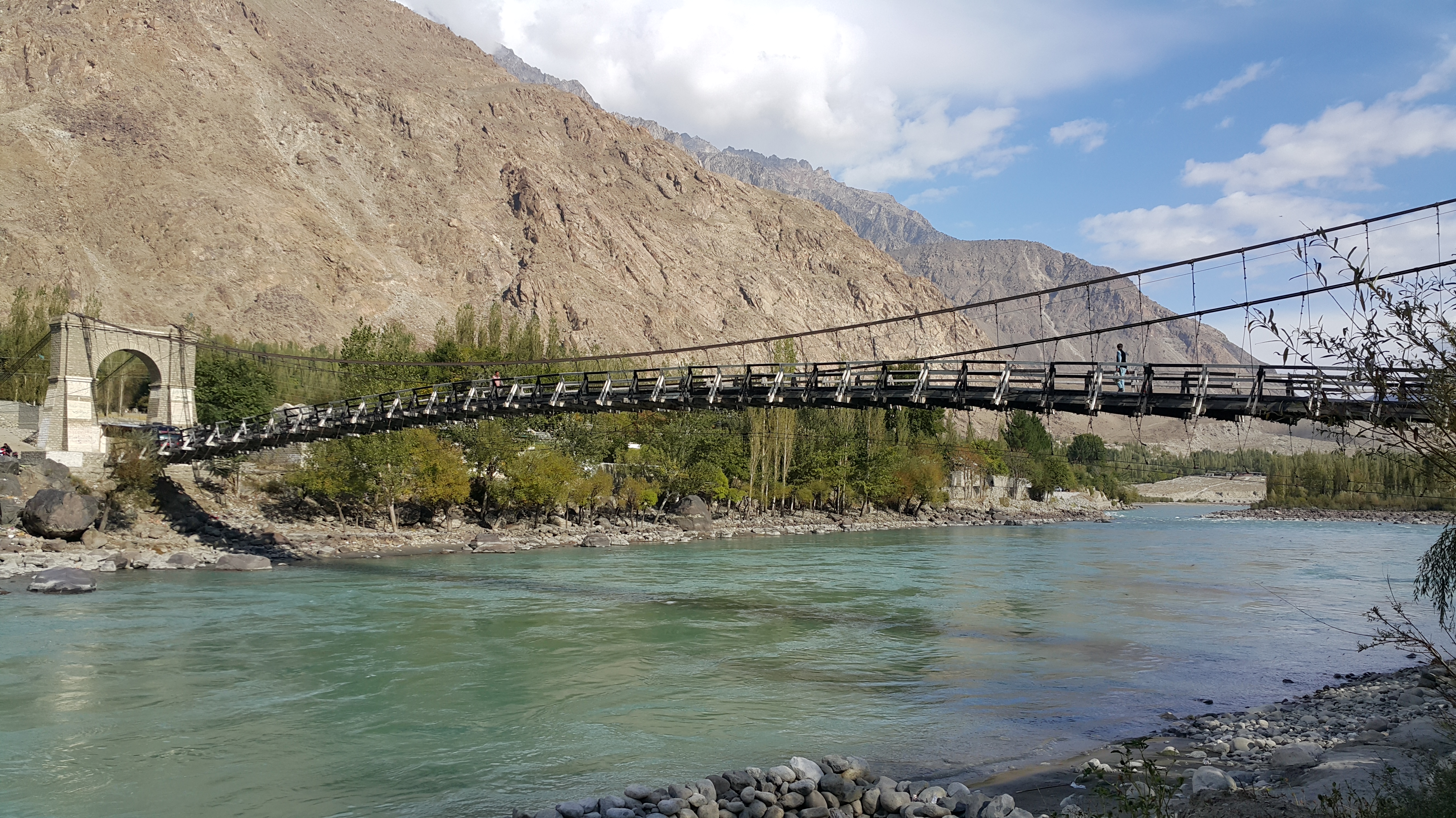 This is the picture of the bridge which connects Gulmuti to Bubur.